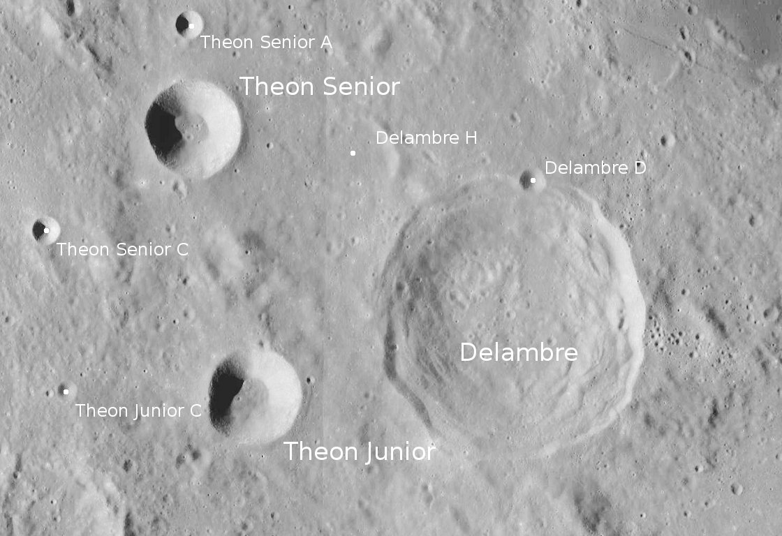 Craters Delambre, Theon Senior and Theon Junior (detail of LRO - WAC global moon mosaic; Mercator projection)